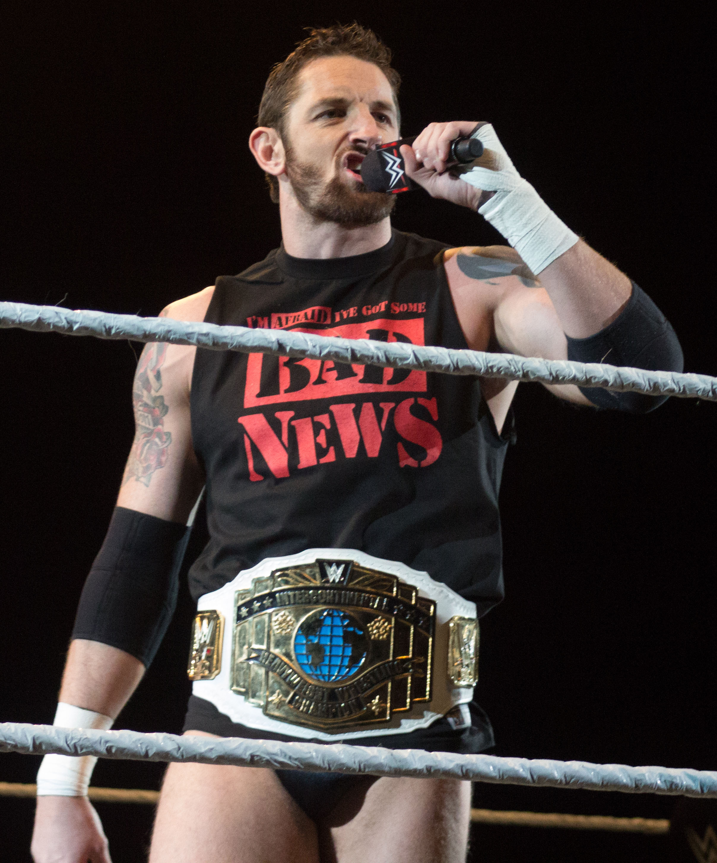 Bad News Barrett as the WWE Intercontinental Champion at a WWE live event on January 10, 2015.